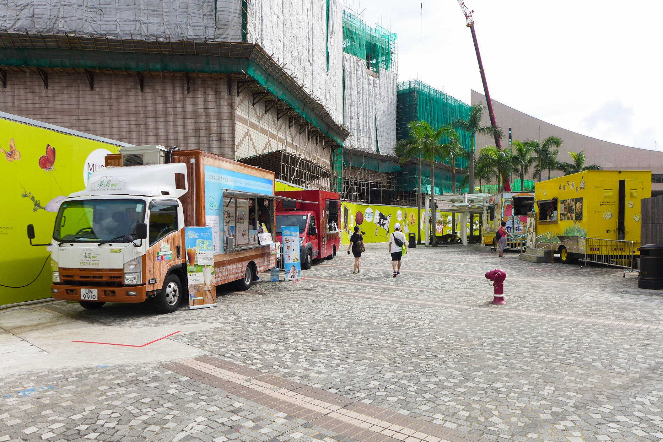 Food Truck in Salisbury Garden